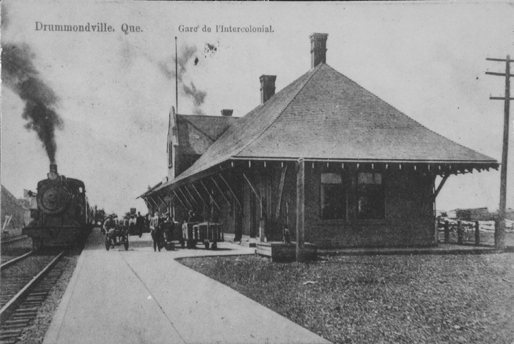 Photo of the Drummondville train station, from the collection of the Seminaire de Nicolet. Circa 1911